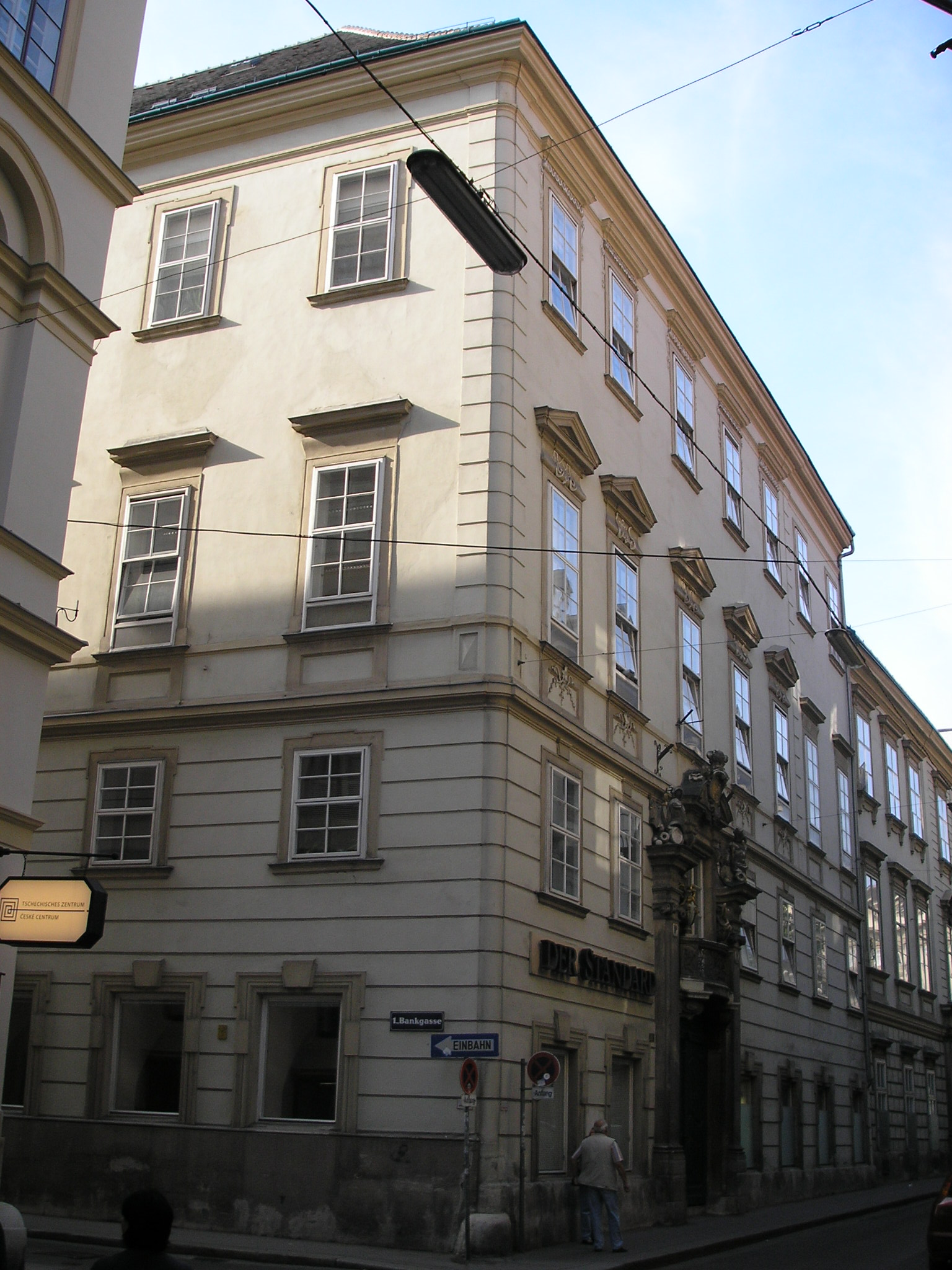 Image of the Palais Batthyány-Strattmann in Vienna's first district Innere Stadt. Currently the headquarters of the newspaper Der Standard. The part at the corner used to be the former Palais Orsini-Rosenberg, before it was bought up and incorporated into the larger Palais Batthyány-Strattmann in 1766.